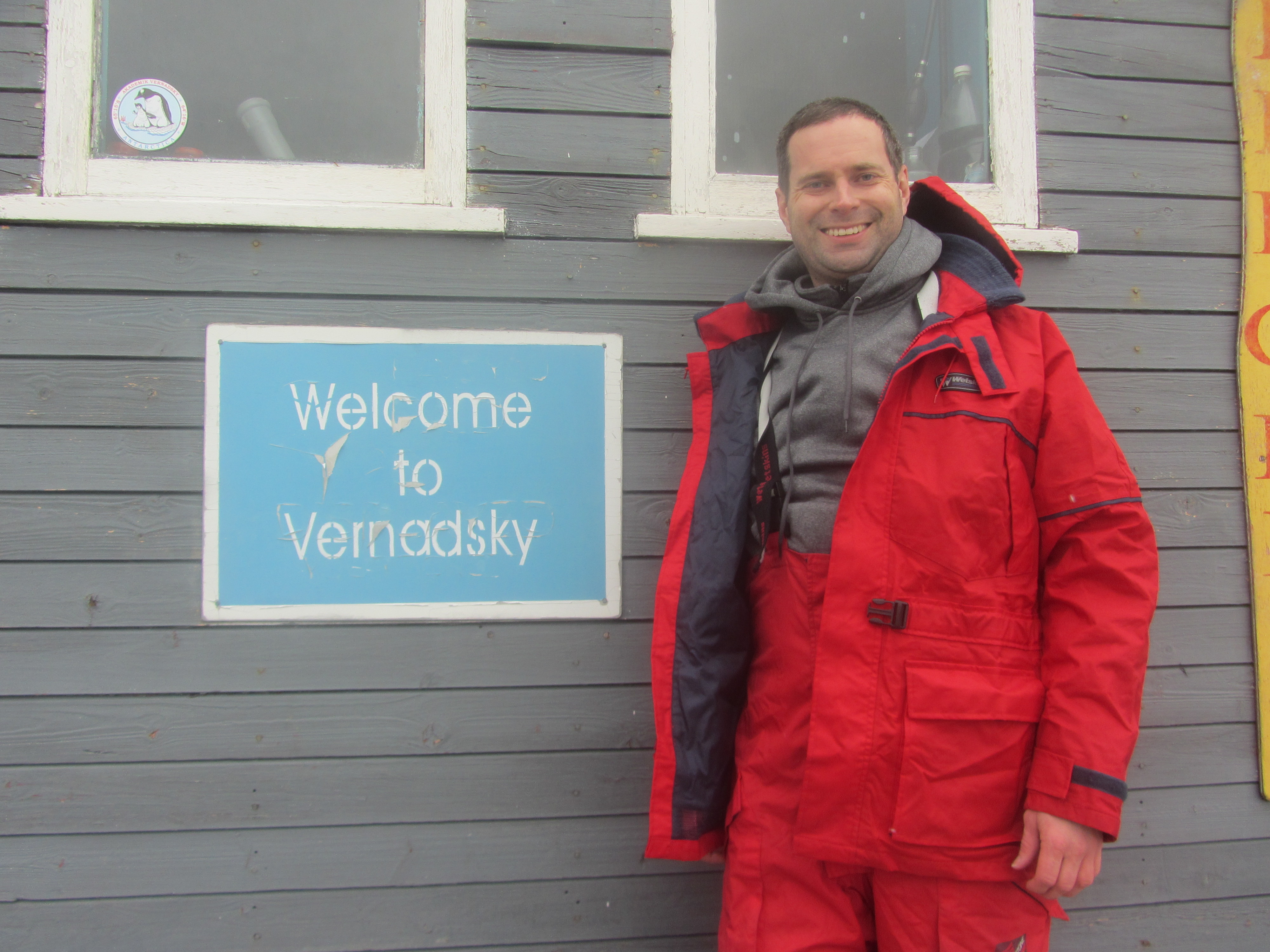 Welcome sign at Verandsky Station (Ukraine), Antarctica